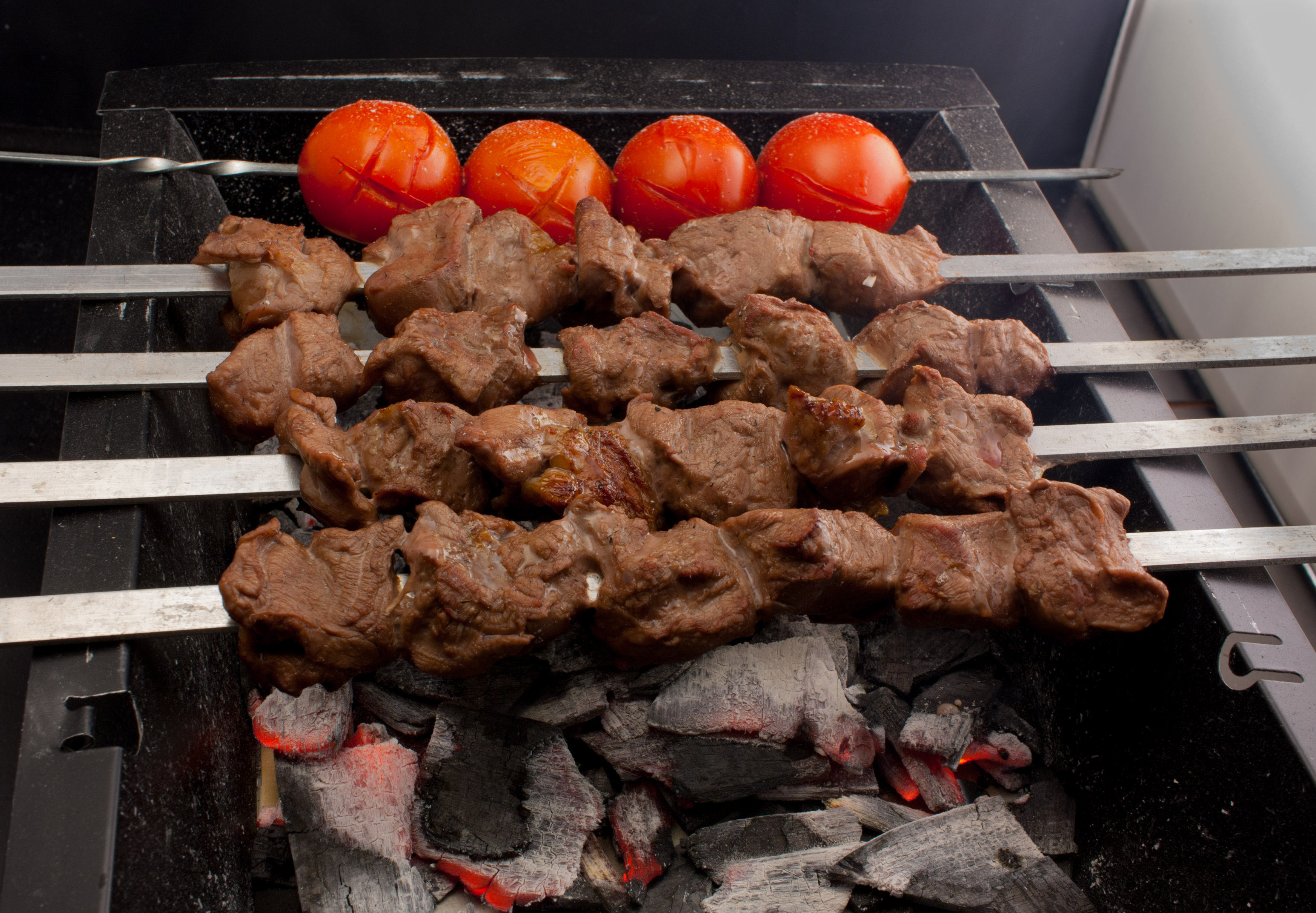 Chenjeh kabab